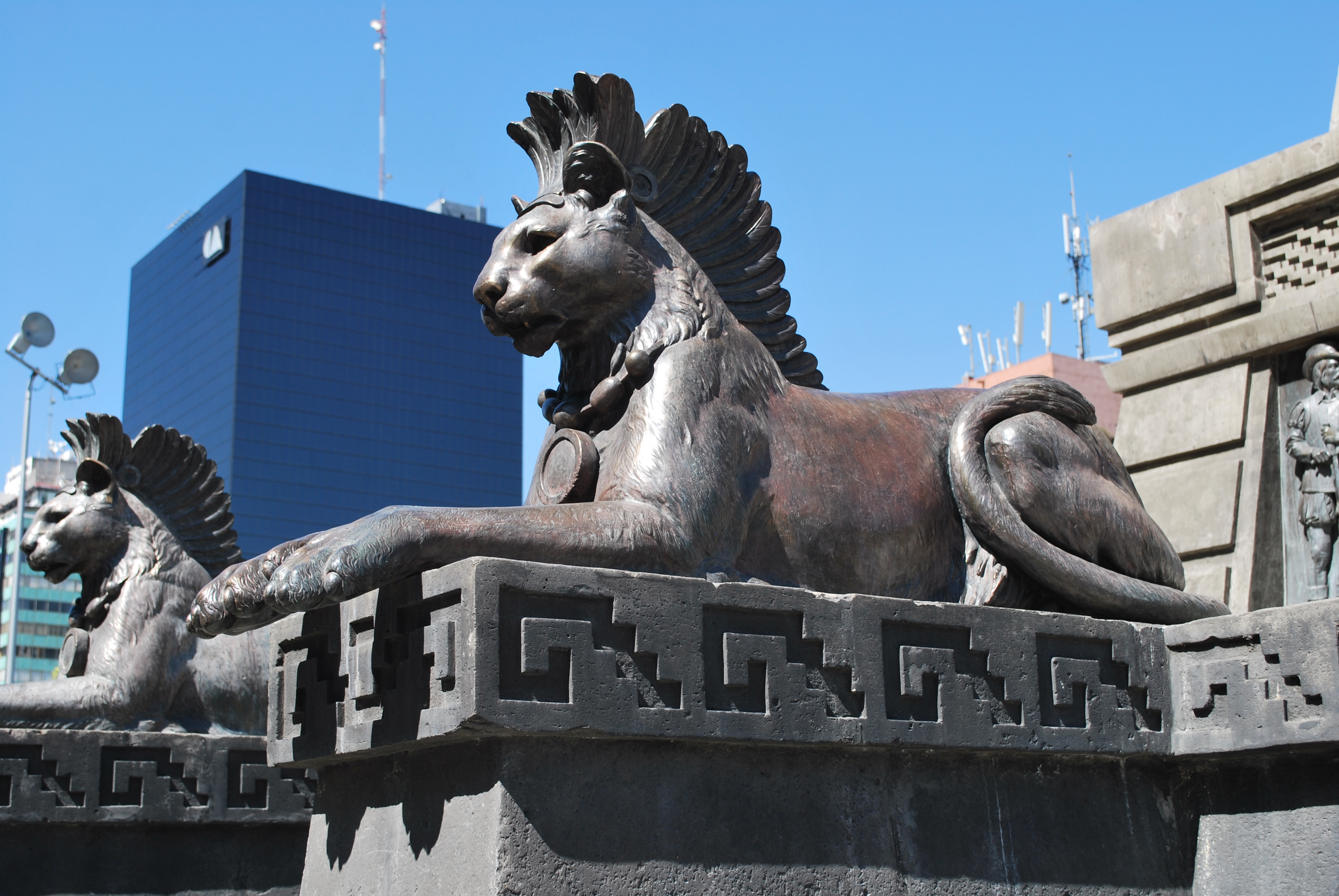 Lion on the monument to Cuauhtémoc on Paseo de la Reforma, Mexico City